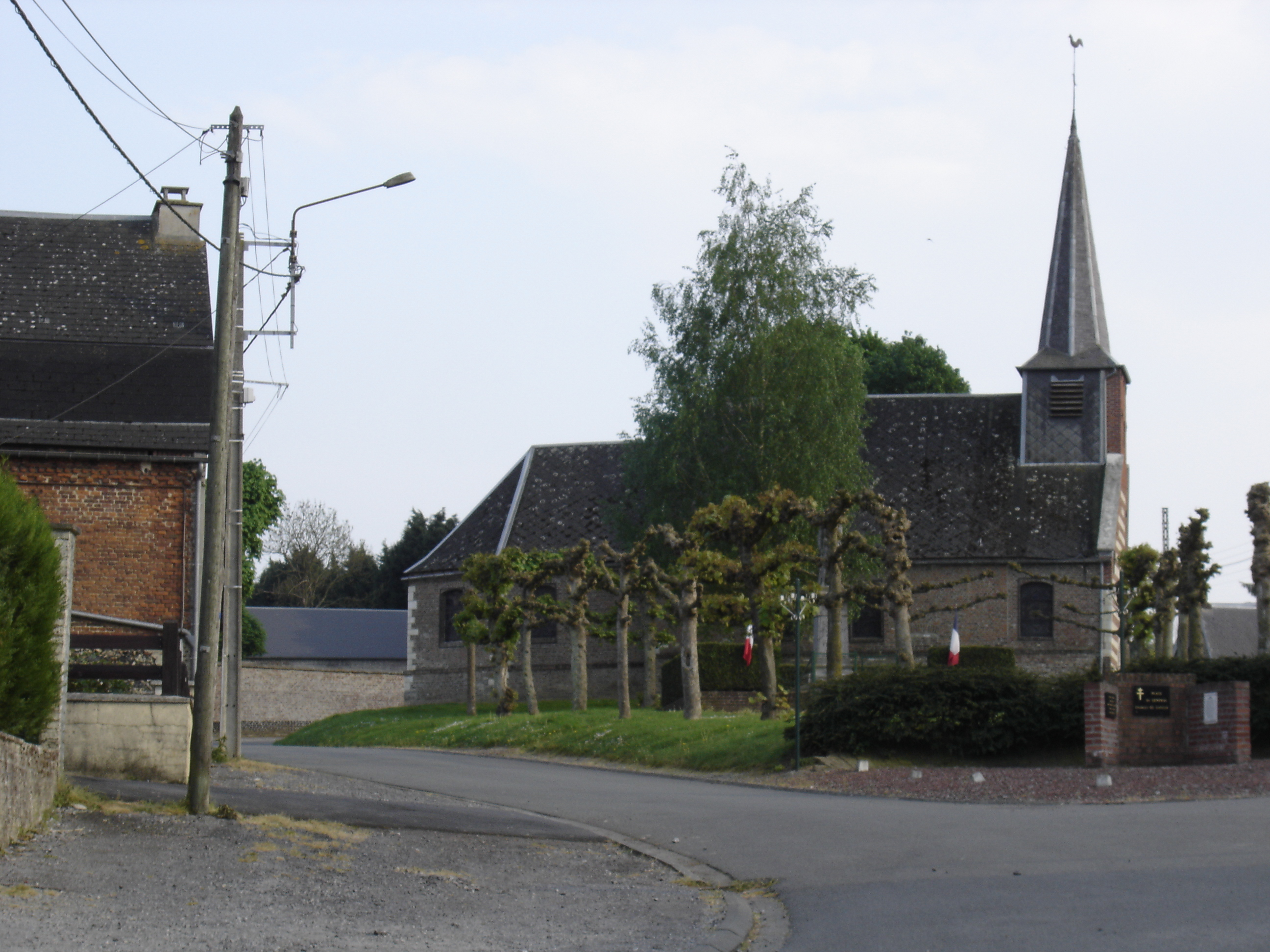 The church of Escaufourt, a village now part of Saint-Souplet